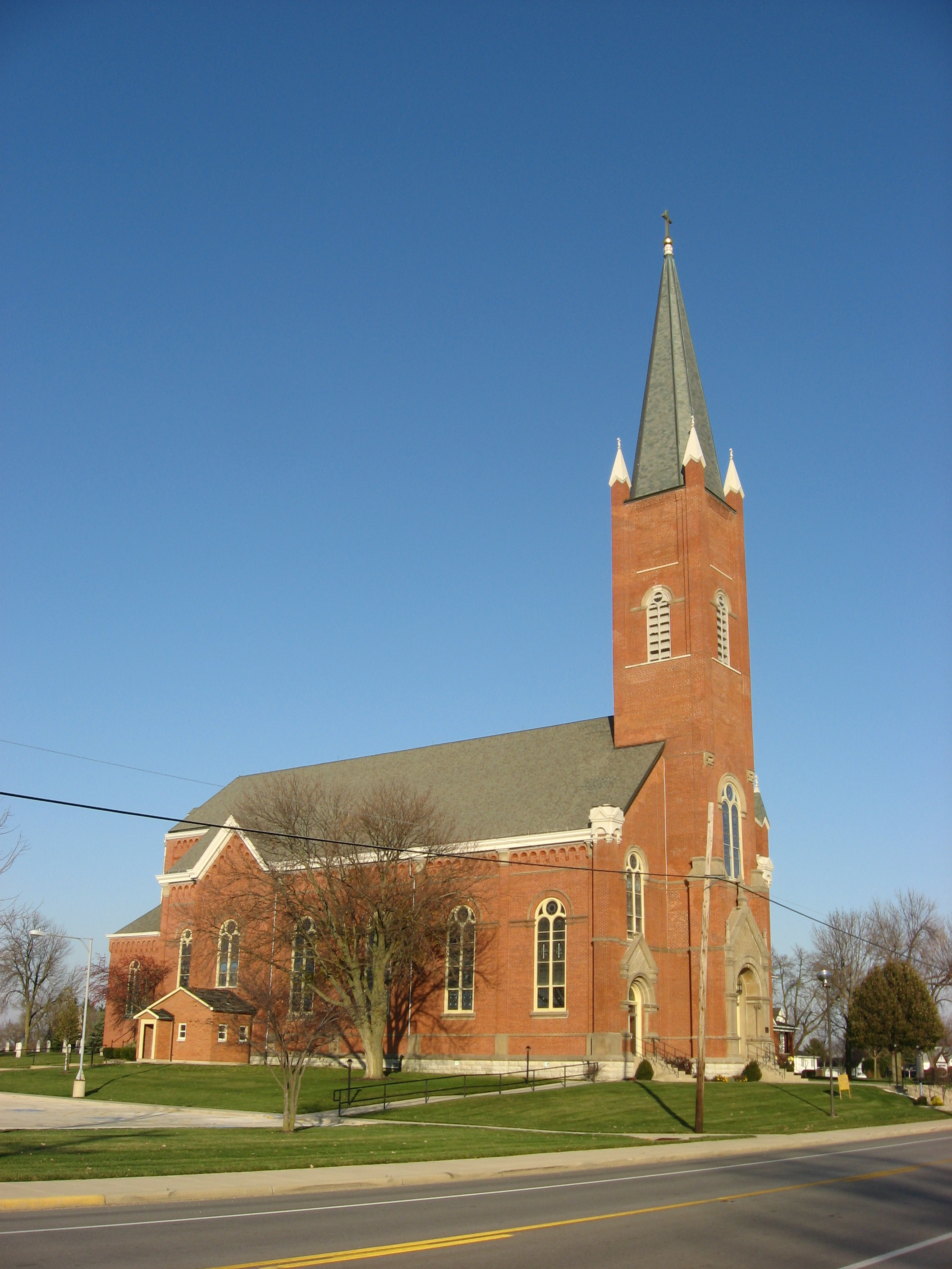 Front and western side of St. John the Baptist Roman Catholic Church, located along State Route 119 in Maria Stein, an unincorporated community in Marion Township, Mercer County, Ohio, United States. Built in 1889, the church was listed on the National Register of Historic Places as a part of the Cross-Tipped Churches of Ohio Thematic Resources.